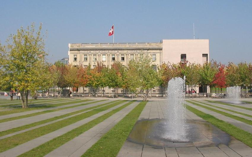 Swiss Embassy Berlin. The building is situated in the new German government-district in Berlin-Tiergarten nearby the Bundeskanzleramt (German Chancellery) and the new Berlin Hauptbahnhof (German for Berlin main station). It was built in 1870/71 by the German architect Friedrich Hitzig for a private person.